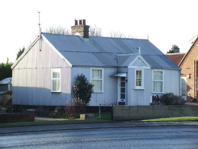 Pelham Road, Immingham. The last remaining "Tin House" of a community built in the early years of the last century to house the workmen who came to dig the Deep Water Docks, and their dependents. By 1908 it had become known as "Tin Town" and included shops and a "Tin Mission".